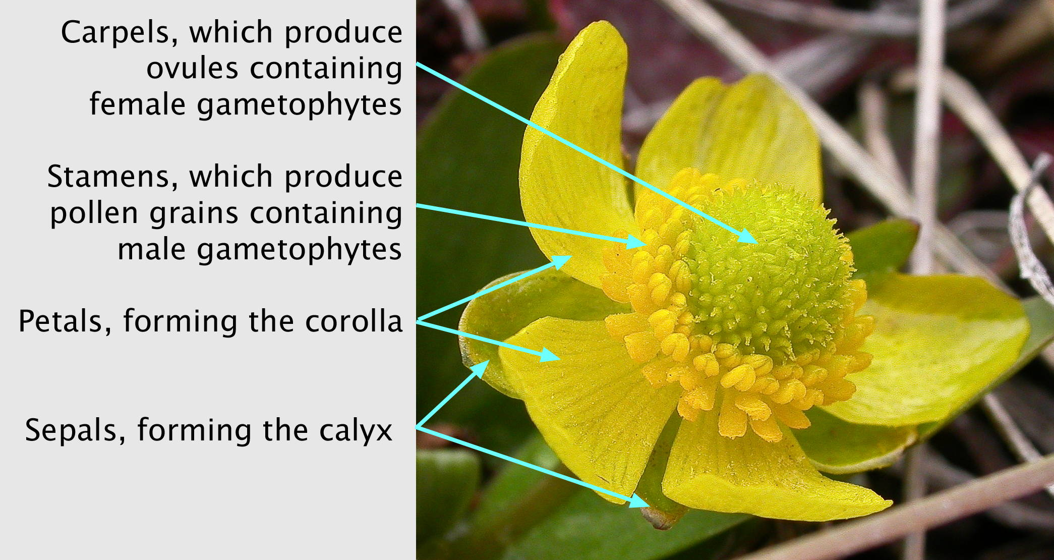 Labelled image of Ranunculus glaberrimus